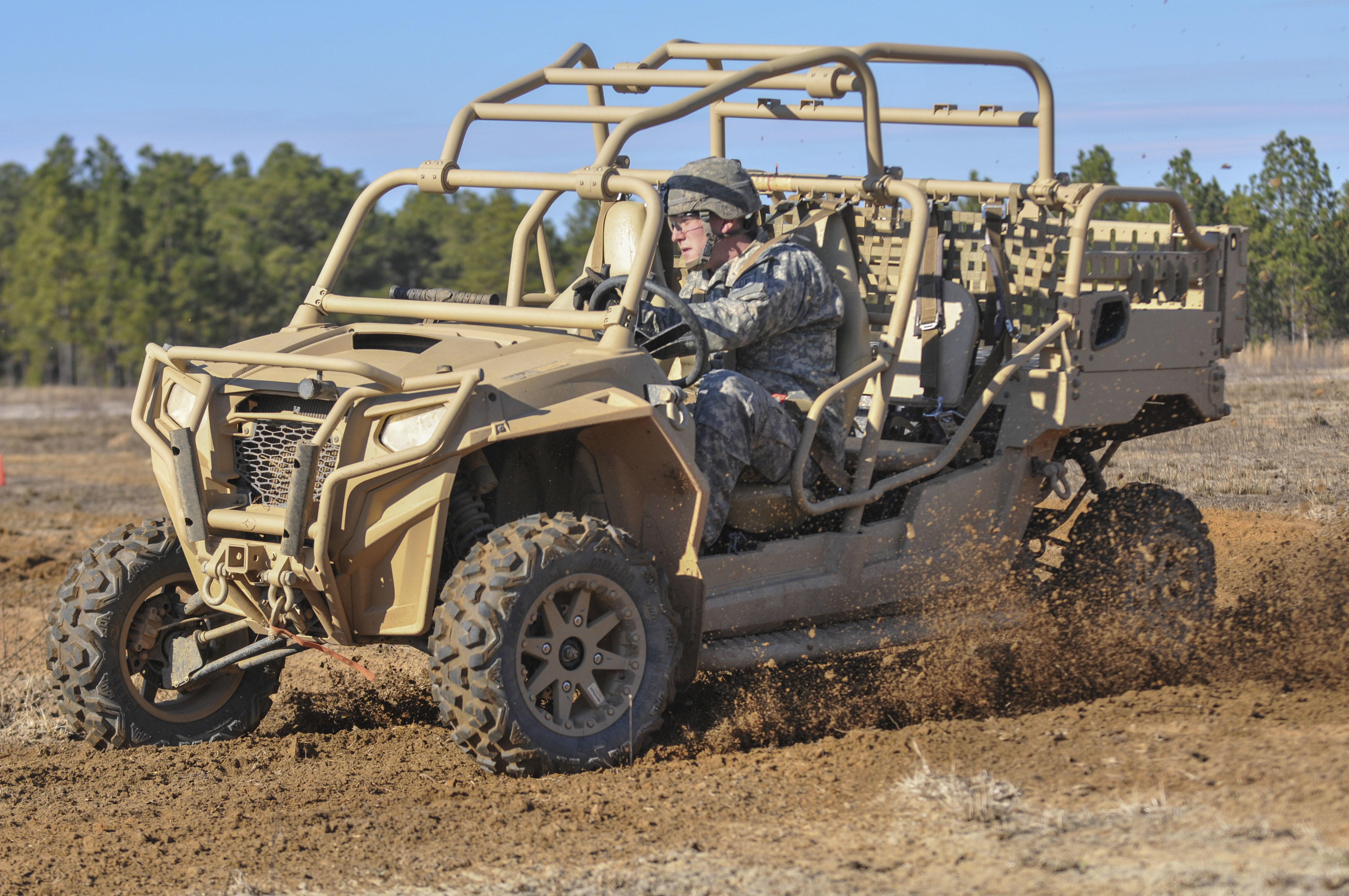 A paratrooper assigned to the 1st Battalion, 325th Airborne, 2nd Brigade Combat Team, 82nd Airborne Division, drives a Light Tactical All Terrain Vehicle through a familiarization course on Fort Bragg, N.C., Jan. 22, 2015. Looking to provide the Global Response Force with increased mobility during airfield seizure operations, the Red Falcons are assessing the capabilities of the LTATV to provide a rifle company with an air-droppable maneuver and small arms platform and will incorporate the vehicle into upcoming training events to include the division’s Combined Joint Operational Access Exercise 15-01 in April. (82nd Airborne Division photo by Sgt. Eliverto V. Larios/Released)